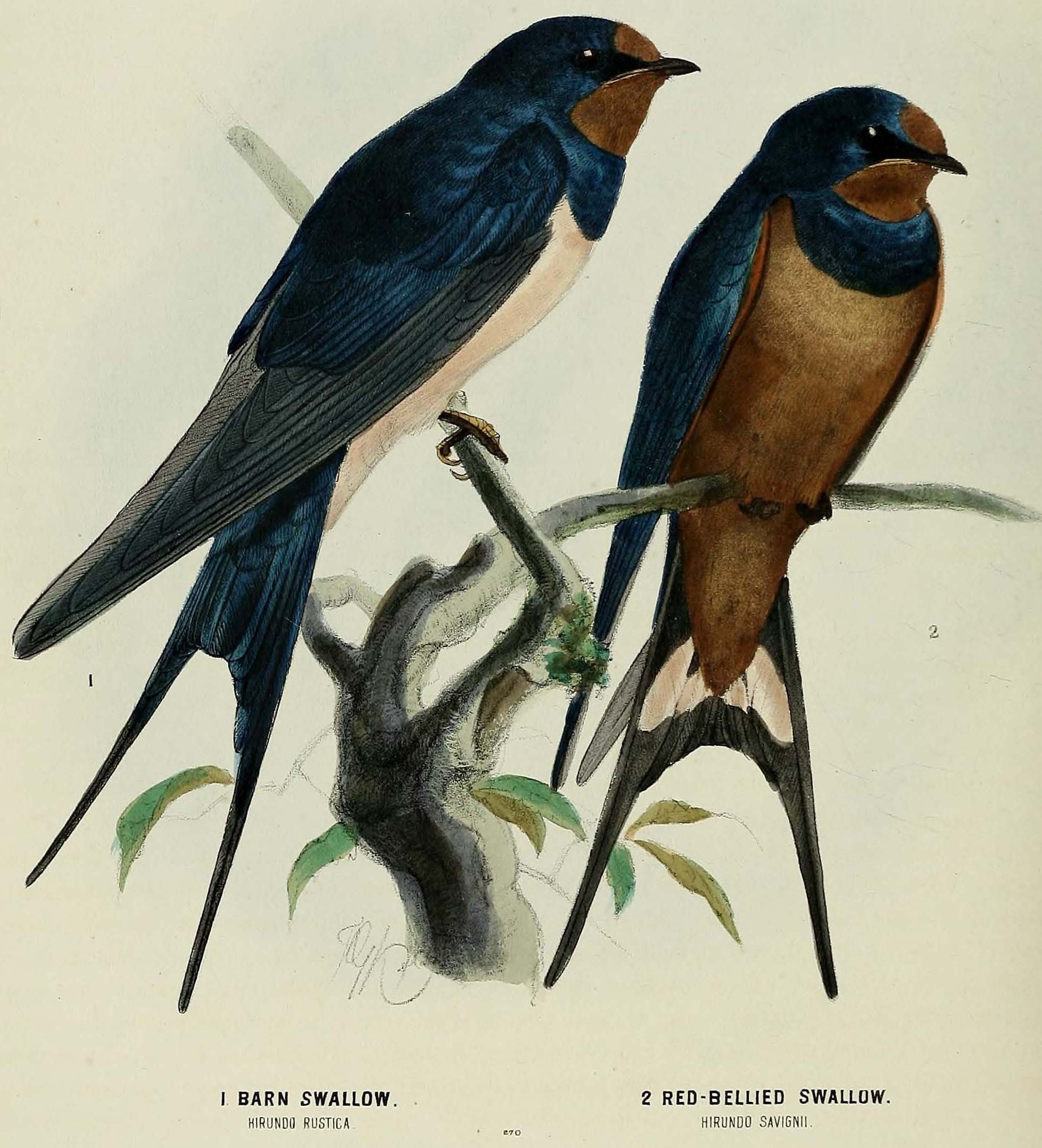 Hirundo rustica Dresser